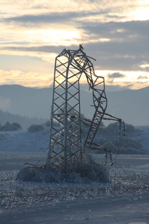 Frozen rain damage electricity network near Postojna/Slovenia